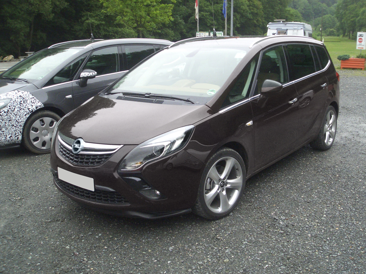 The Zafira Tourer will arrive sharing market with the current generation of the Zafira